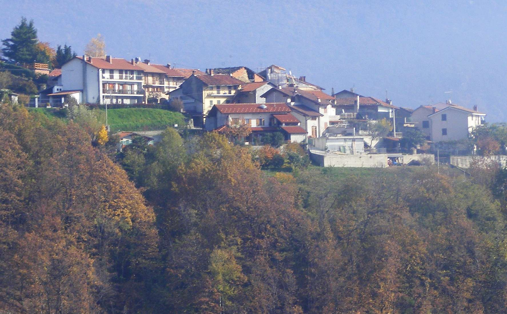 Cumiana (TO, Italy): frazione Berga from Saint Giacinto